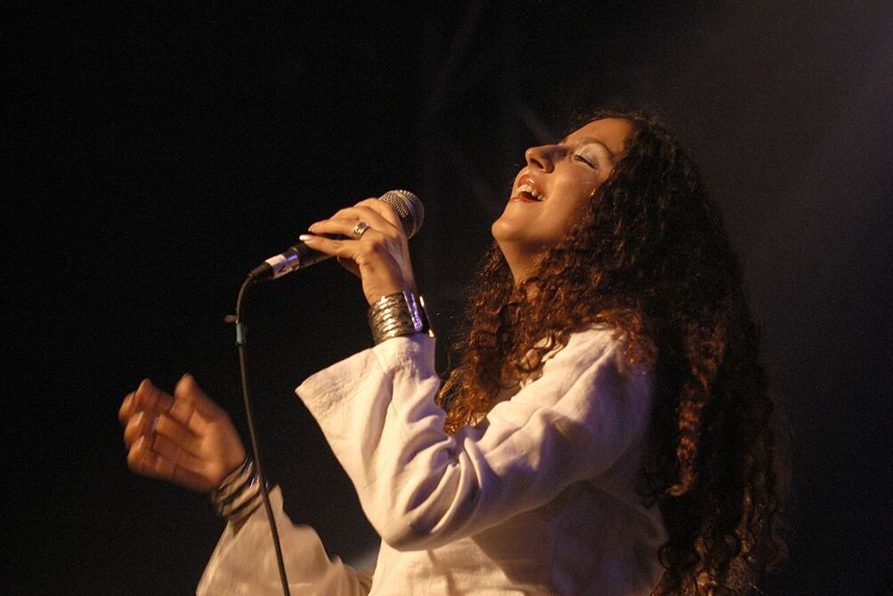 Lynda Thalie by Victor Diaz Lamich